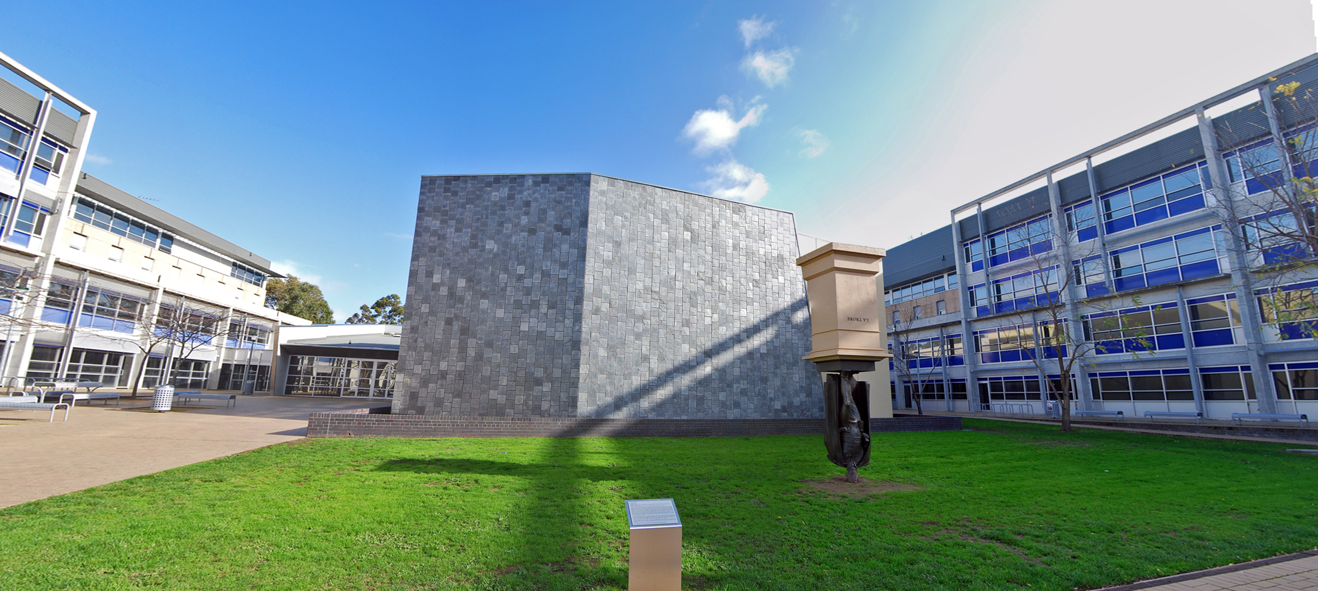 Image of the Health Sciences Building and Charles La Trobe Statue at La Trobe University